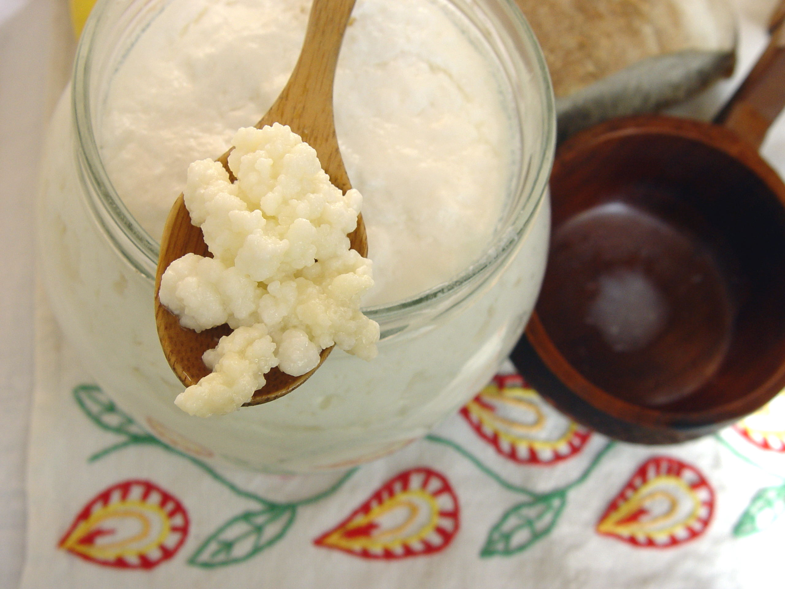 Milk kefir grains with a jar of kefir in the background.